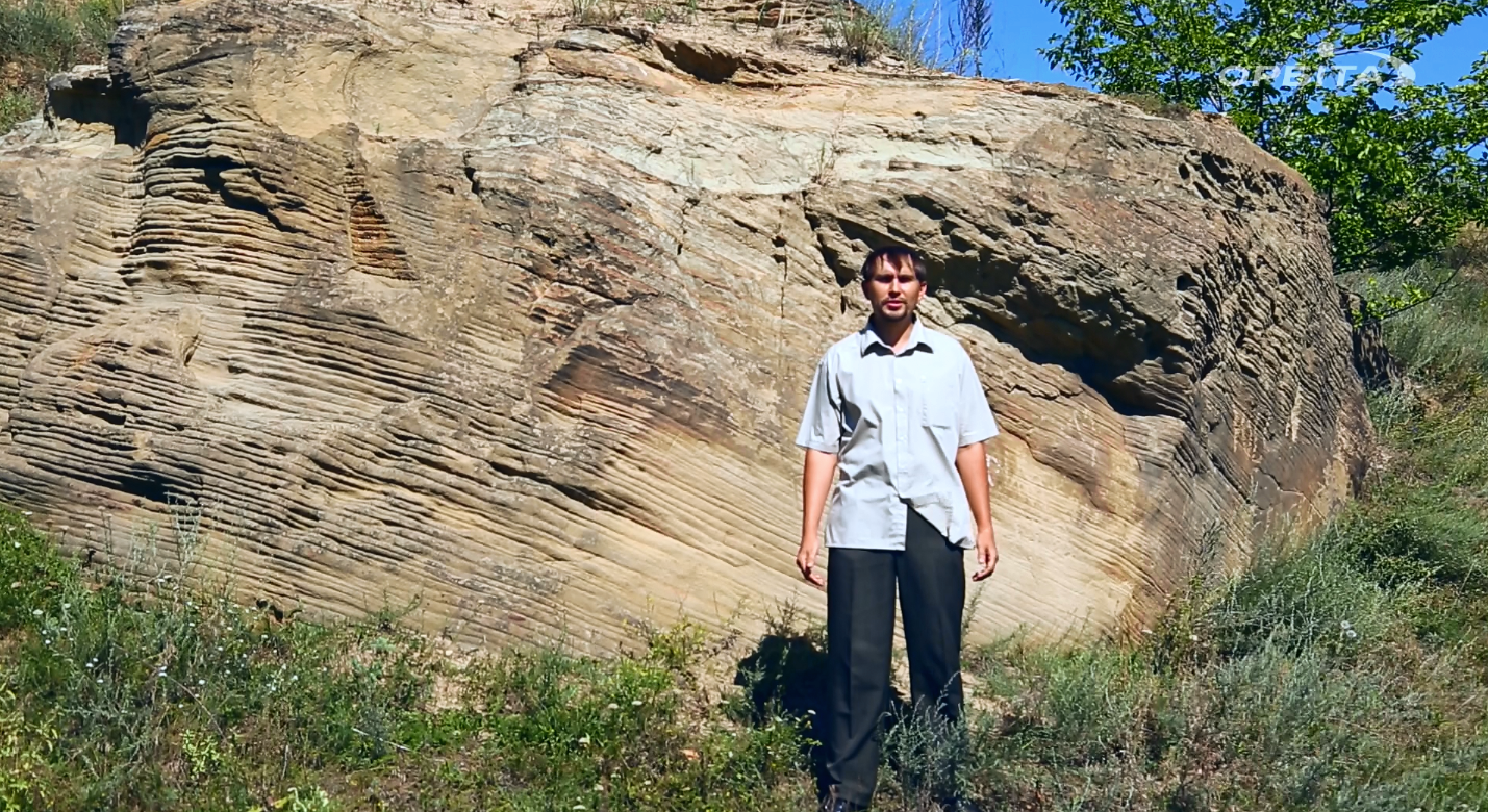 Кадр з фільму Торські степи